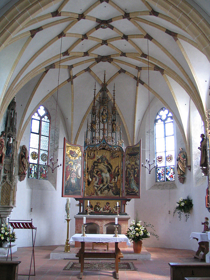 Altar Castle Blutenburg, Munich, Germany